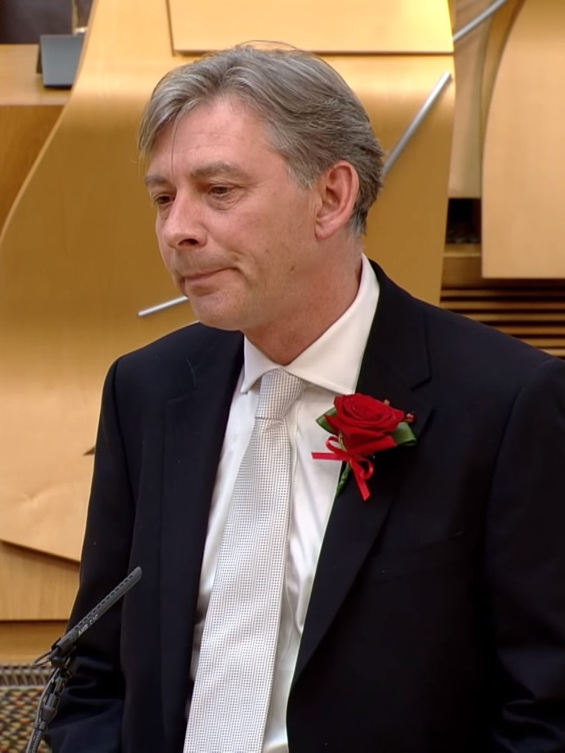 Richard Leonard, Member of Scottish Parliament for Central Scotland, makes affirmation in 2016.